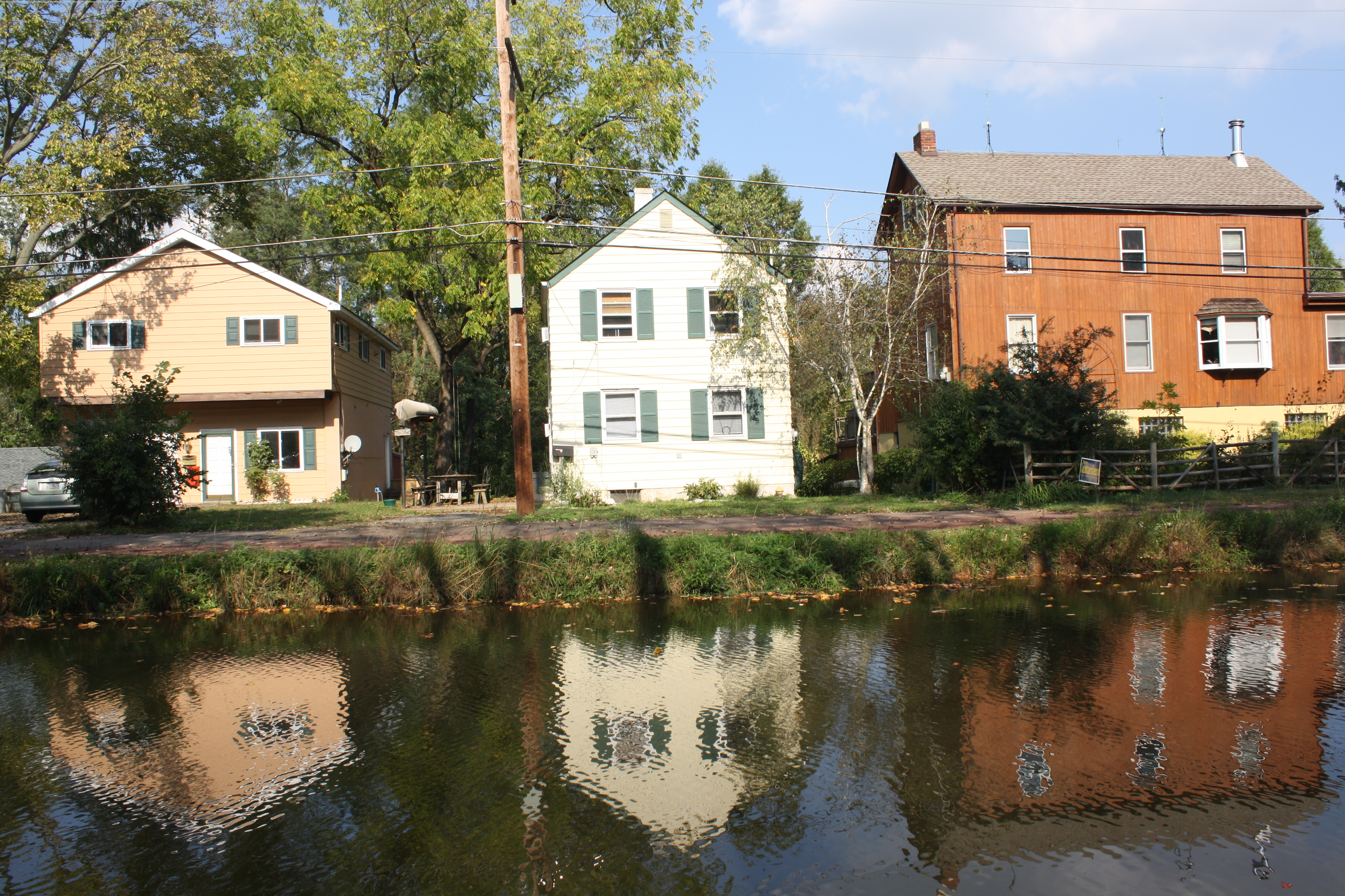 Yardley Historic District, Yardley, Pennsylvania. Delaware Canal . Object location40° 14′ 34″ N, 74° 50′ 11″ W